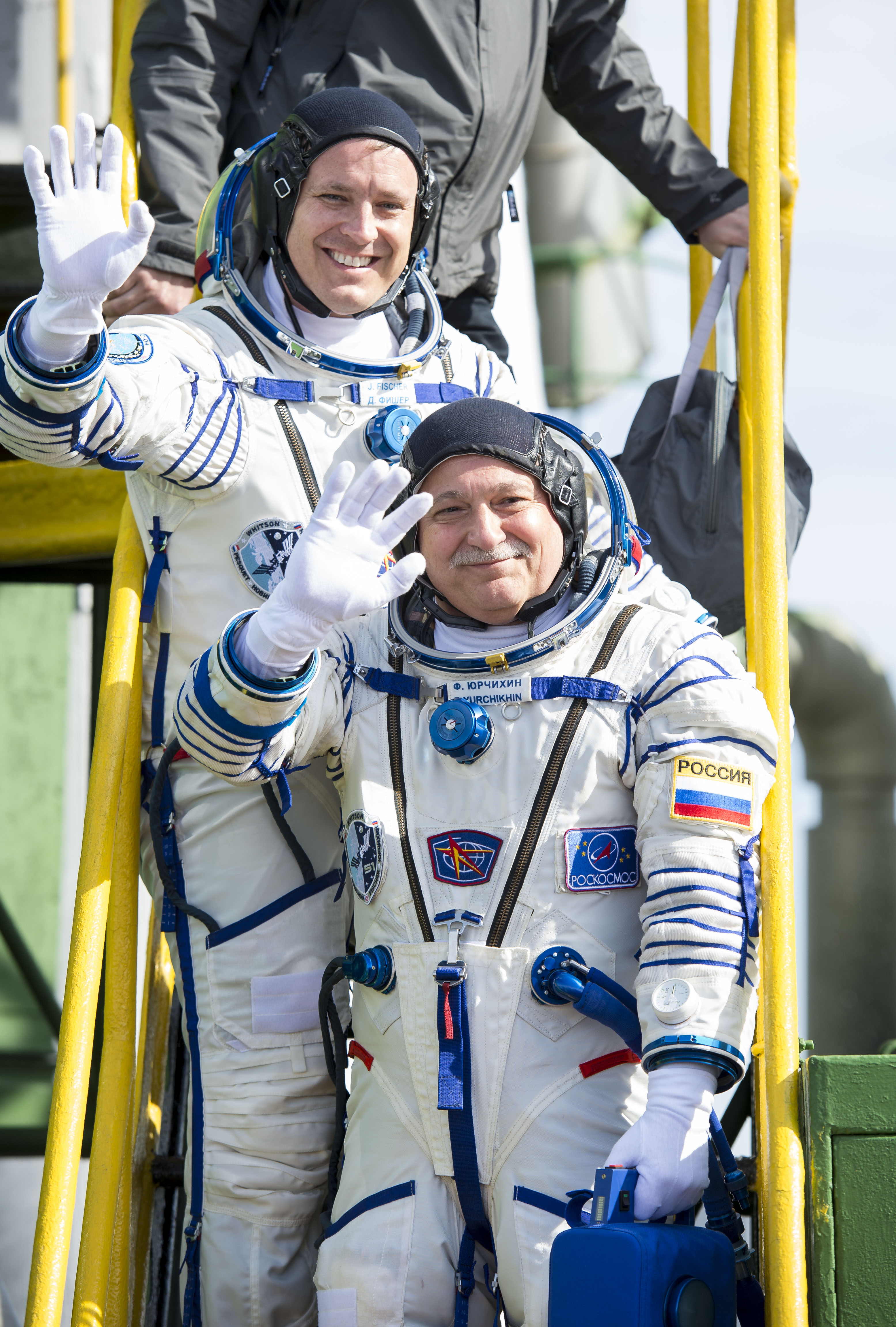 Expedition 51 Soyuz Commander Fyodor Yurchikhin of Roscosmos, bottom and Flight Engineer Jack Fischer of NASA, top, wave farewell prior to boarding the Soyuz MS-04 spacecraft for launch, Thursday, April 20, 2017 at the Baikonur Cosmodrome in Kazakhstan. Yurchikhin and Fischer will spend the next four and a half months aboard the International Space Station. Photo Credit: (NASA/Aubrey Gemignani)